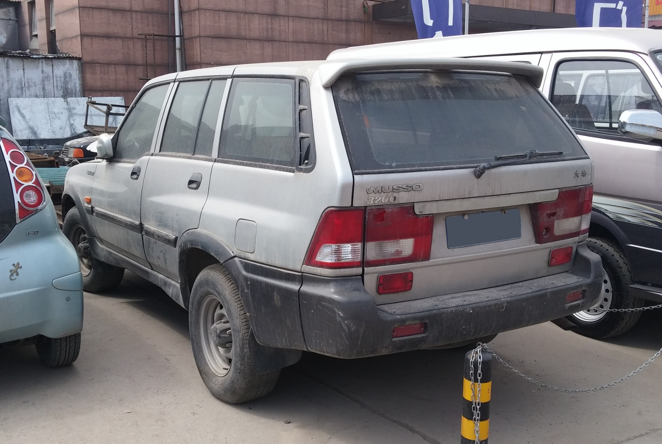 Dadi Musso RX6470 photographed in Zhengzhou, Henan province, China.